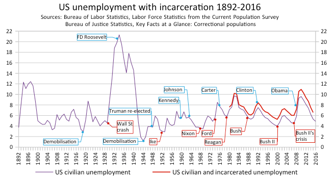 United States unemployment with incarceration 1892-2016